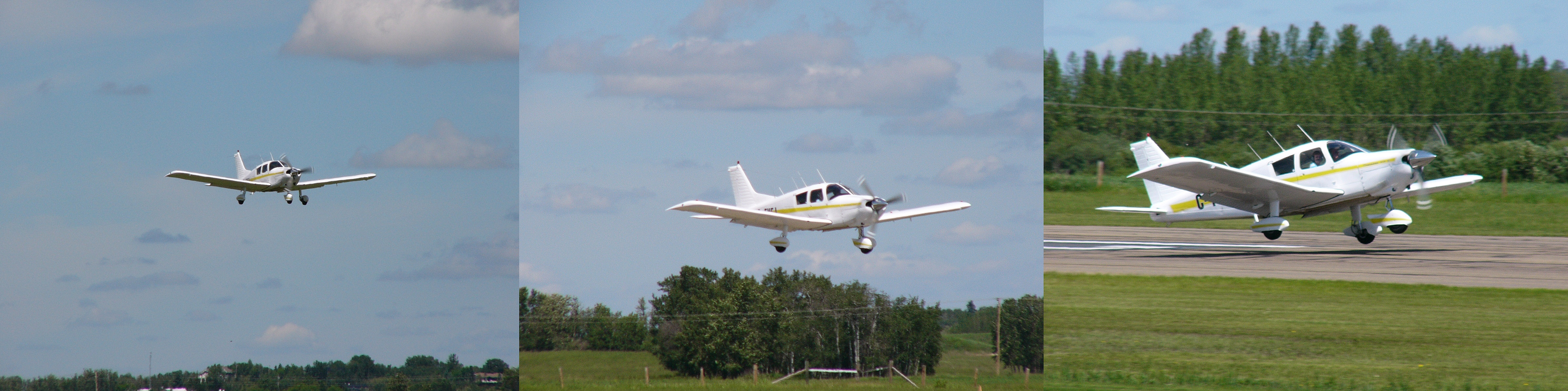 A Piper PA-28 Cherokee landing sequence at the COPA Convention at Wetaskiwin, Alberta, Canada